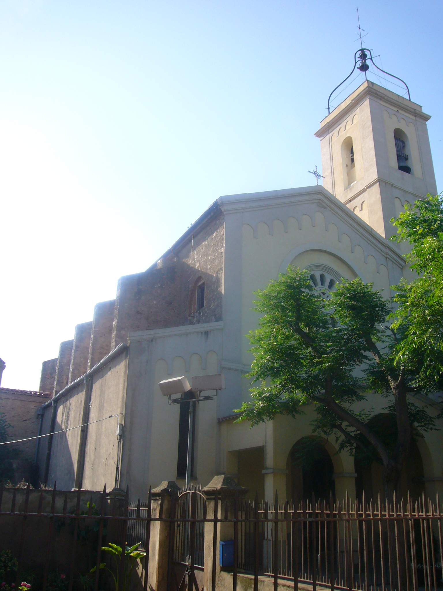 Church of Santa Magdalena, Esplugues